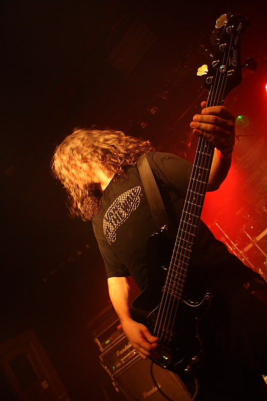 Frontside metalcore band